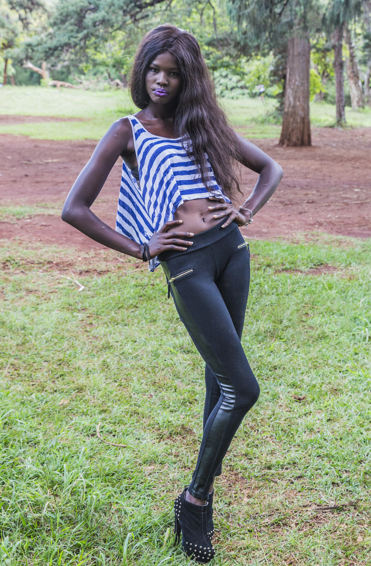 Kenyan Woman in Nairobi